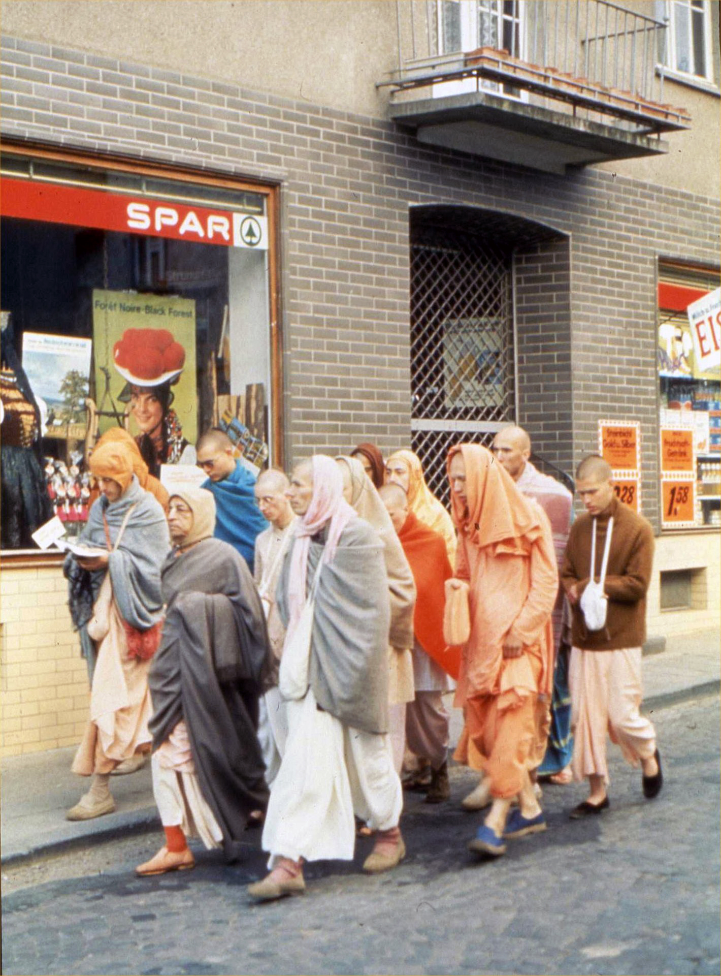 Bhaktivedanta Swami Prabhupada on a morning walk with his disciples in Germany